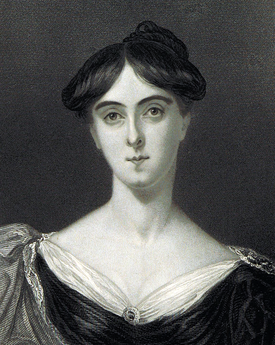 Catherine Grace Godwin (25 December 1798 – 1845) was a poet. Self portrait. Picture published 1854